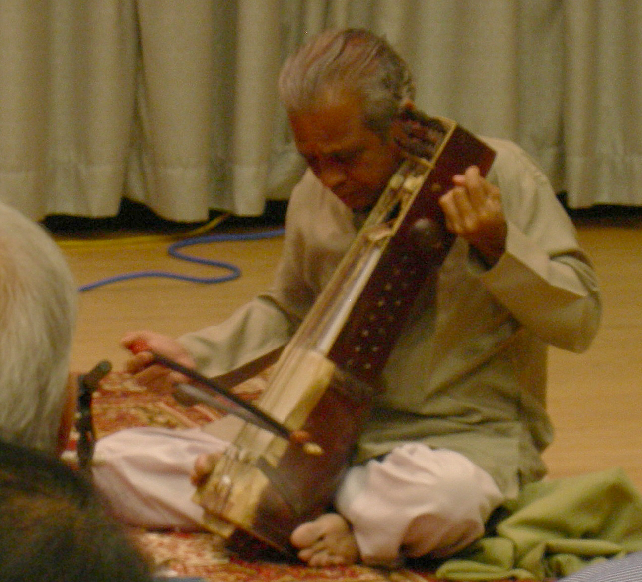 Anant Kunte playing the sarangi, accompanying Shruti Sadolikar Katkar in a concert in the Ragamala series, Brechemin Auditorium, Music building, University of Washington, Seattle, Washington. Image has been somewhat retouched, but nothing major.